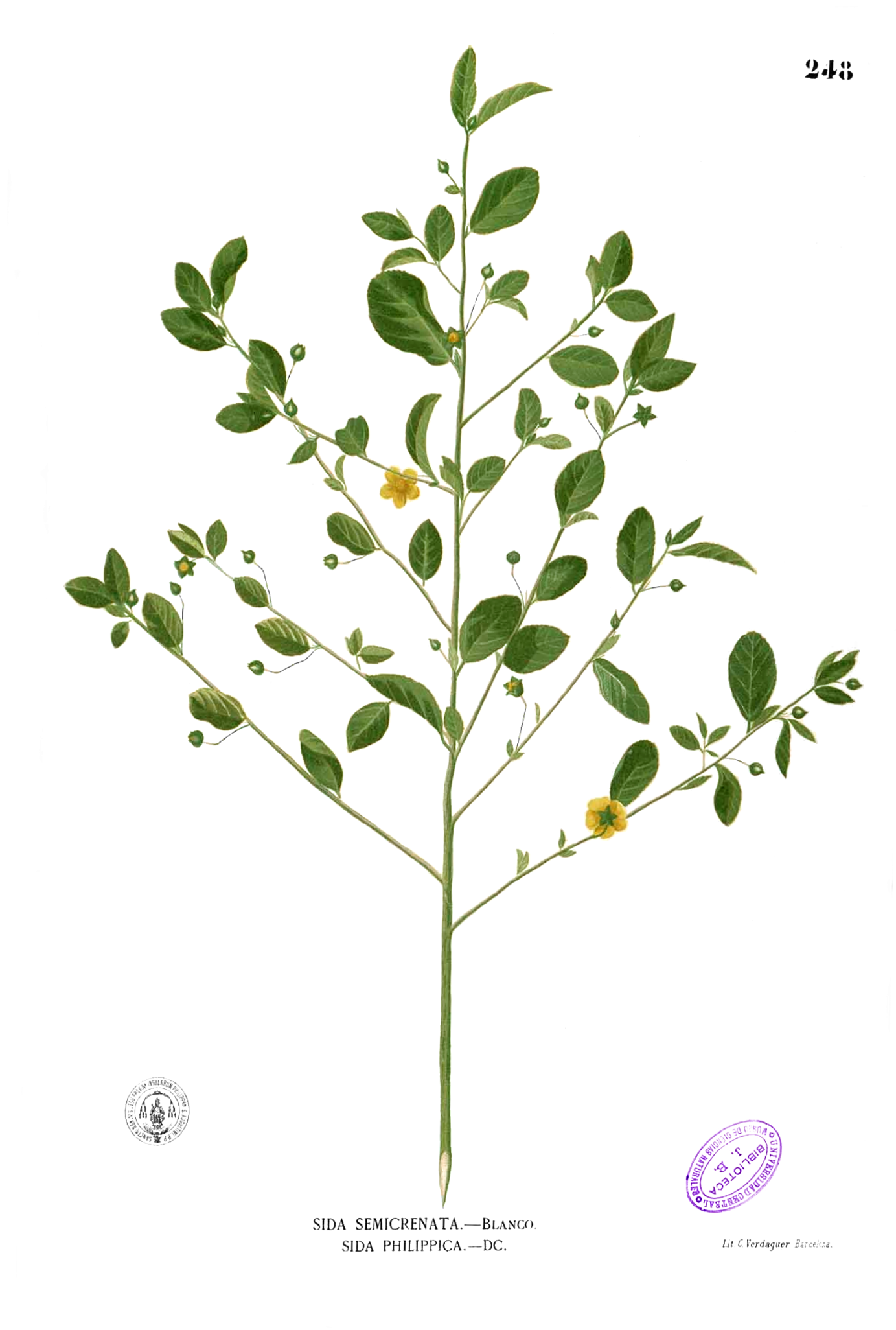 Plate from book